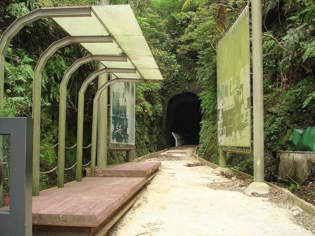 Showing Shih-Chiu-Ling Tunnel in the distance,it is a ancient monument of Taiwan in Keelung City.